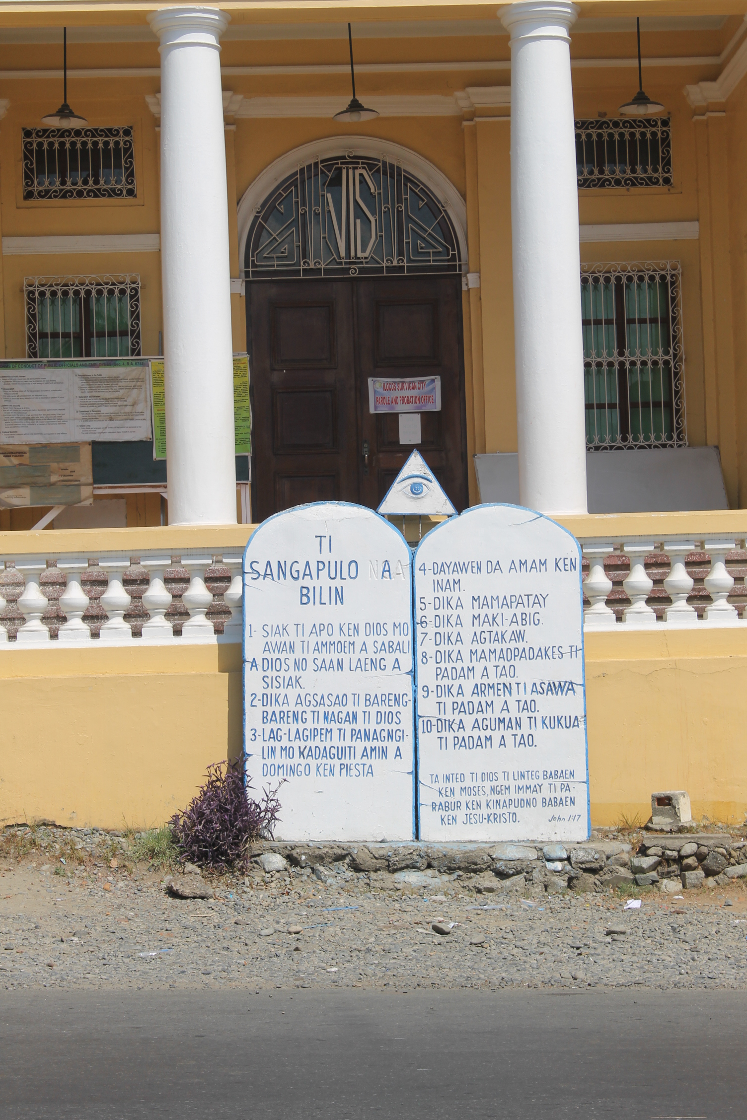 10 commandments in Ilokano language